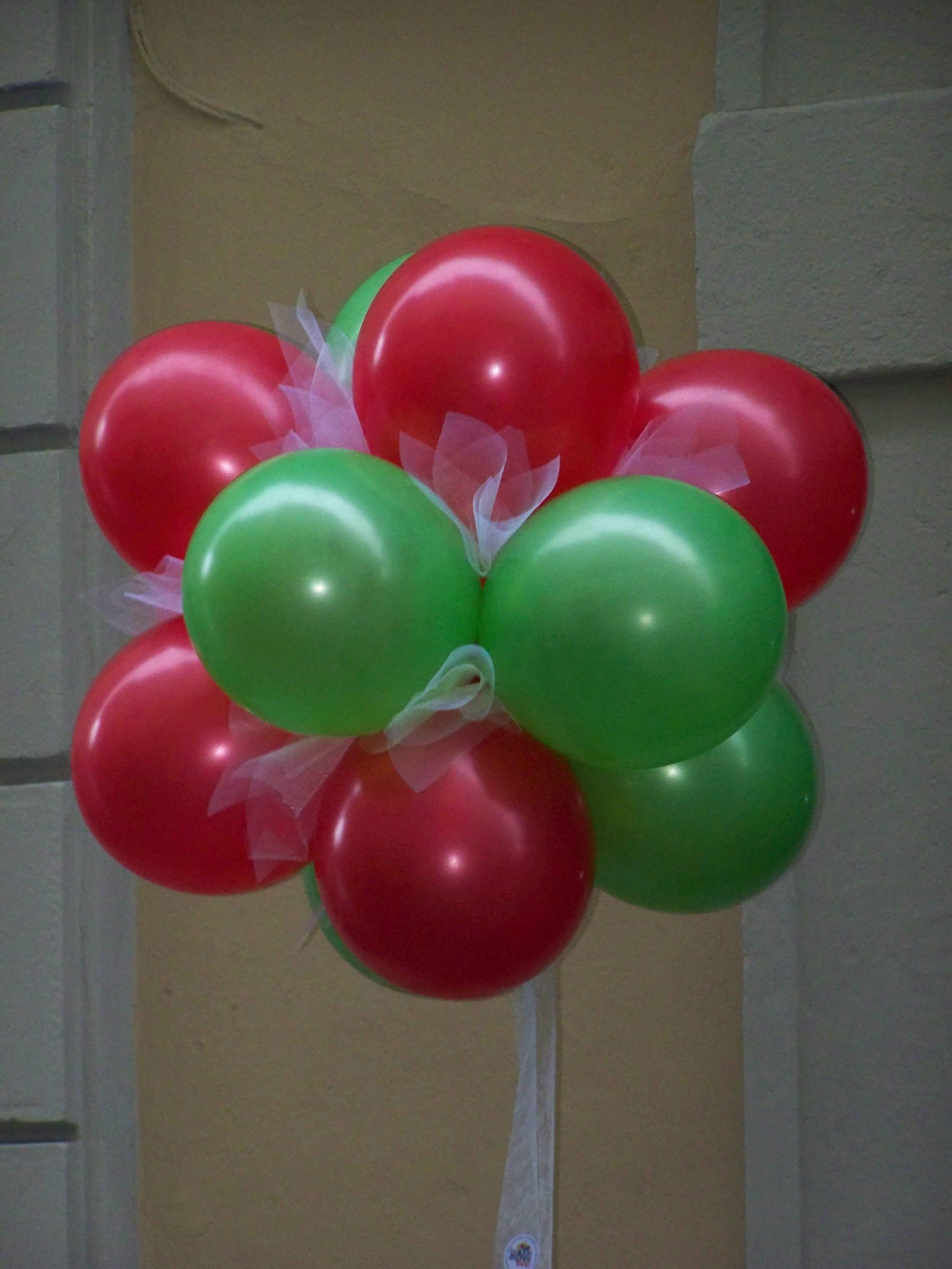 ballons